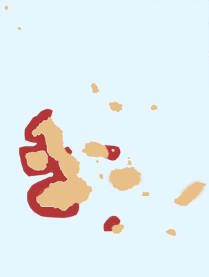 The Distribution of the Galapagos Penguin